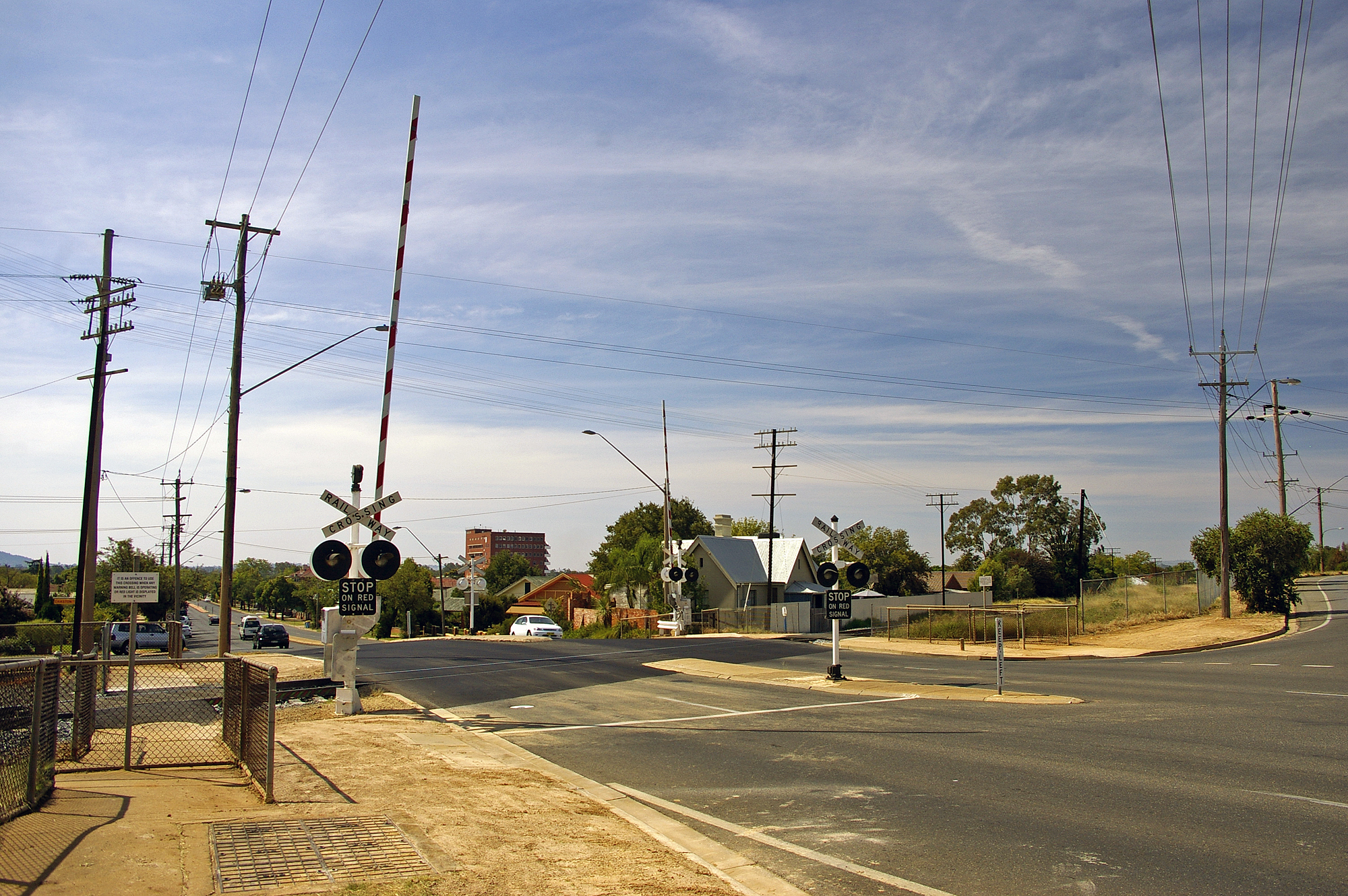 Bourke/Docker Street level crossing.